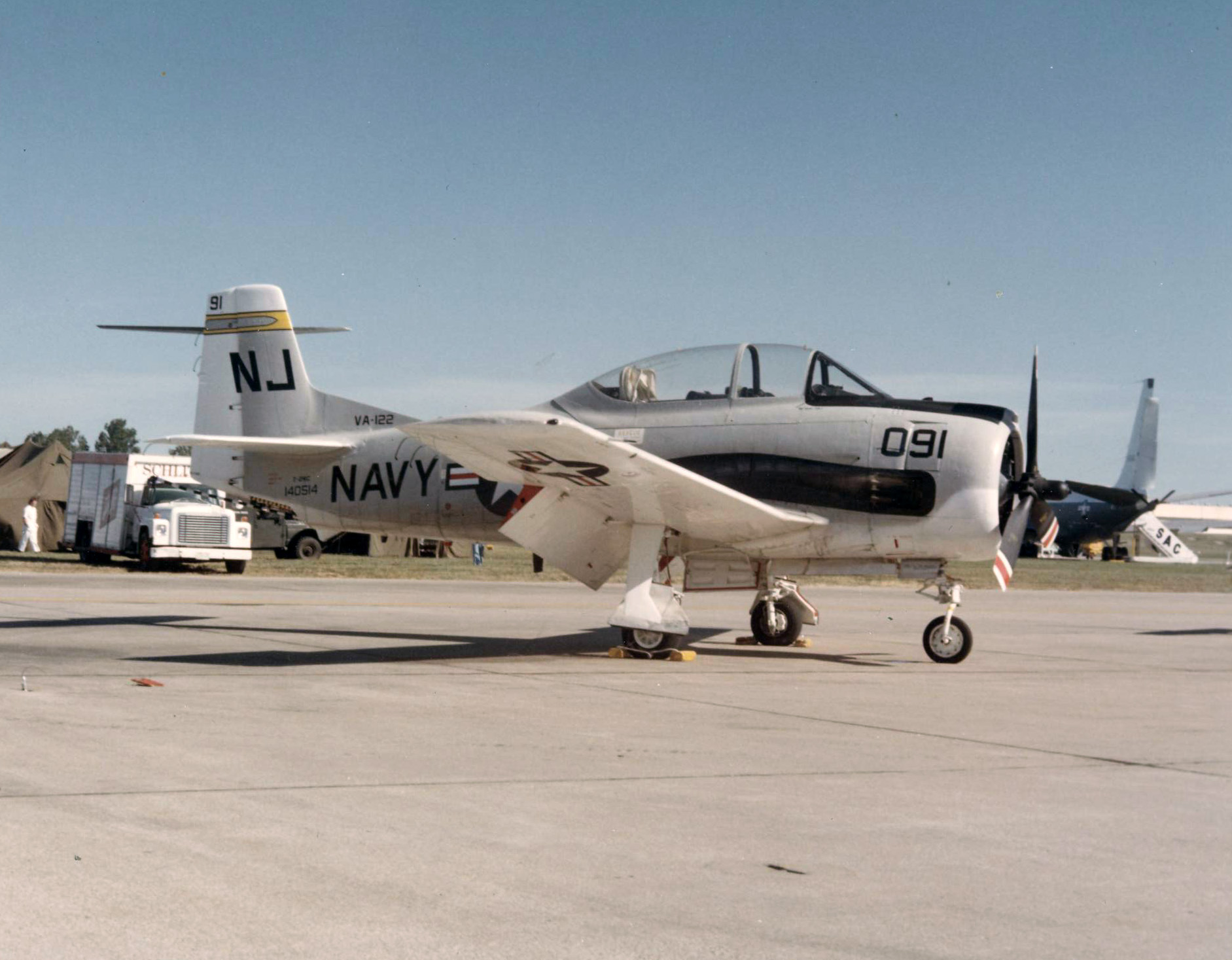 A U.S. Navy North American T-28C Trojan (BuNo 140514) of Attack Squadron 122 (VA-122) at Offutt Air Force Base, Nebraska (USA), in 1976.